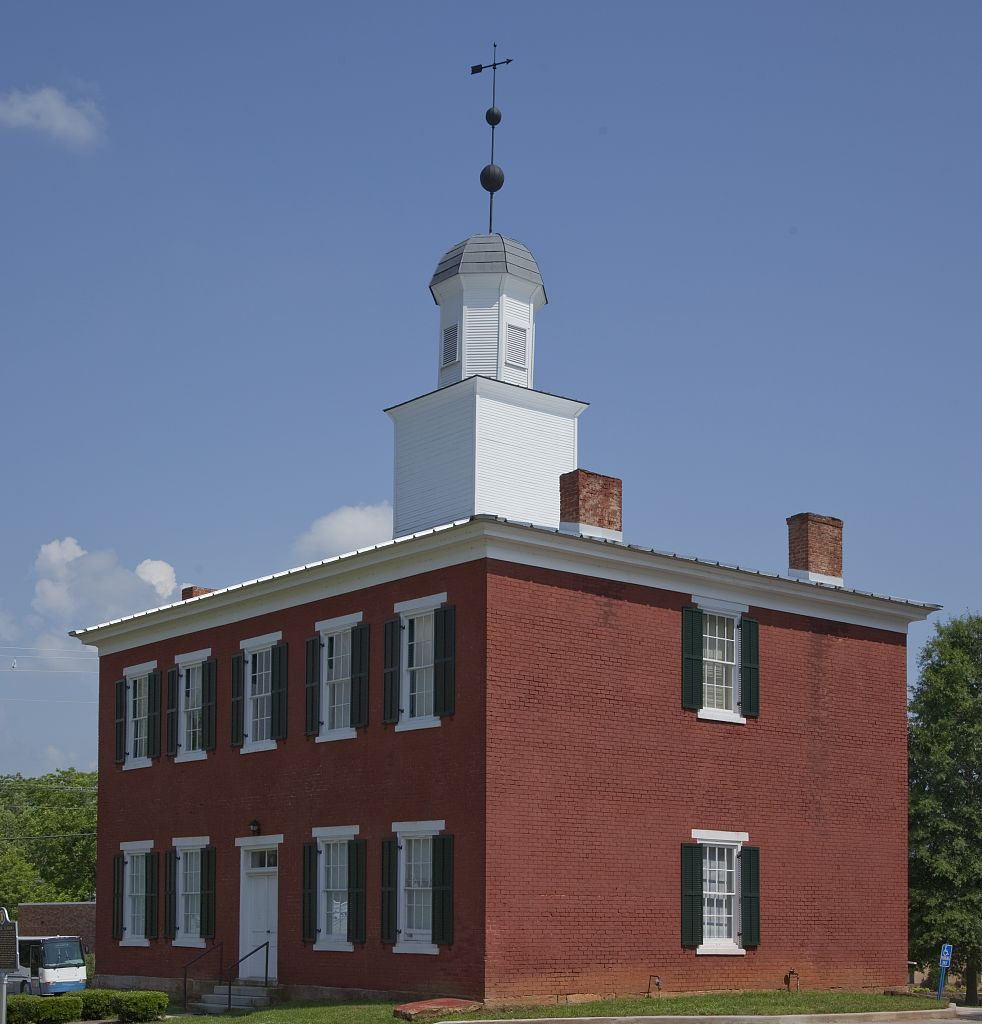 Somerville (Old Morgan County) Court House, Somerville (Morgan County, Alabama)